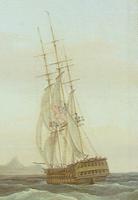 Charles Grant (1810 EIC ship) - Indiamen Minerva, Scaleby Castle, and Charles Grant (cropped)